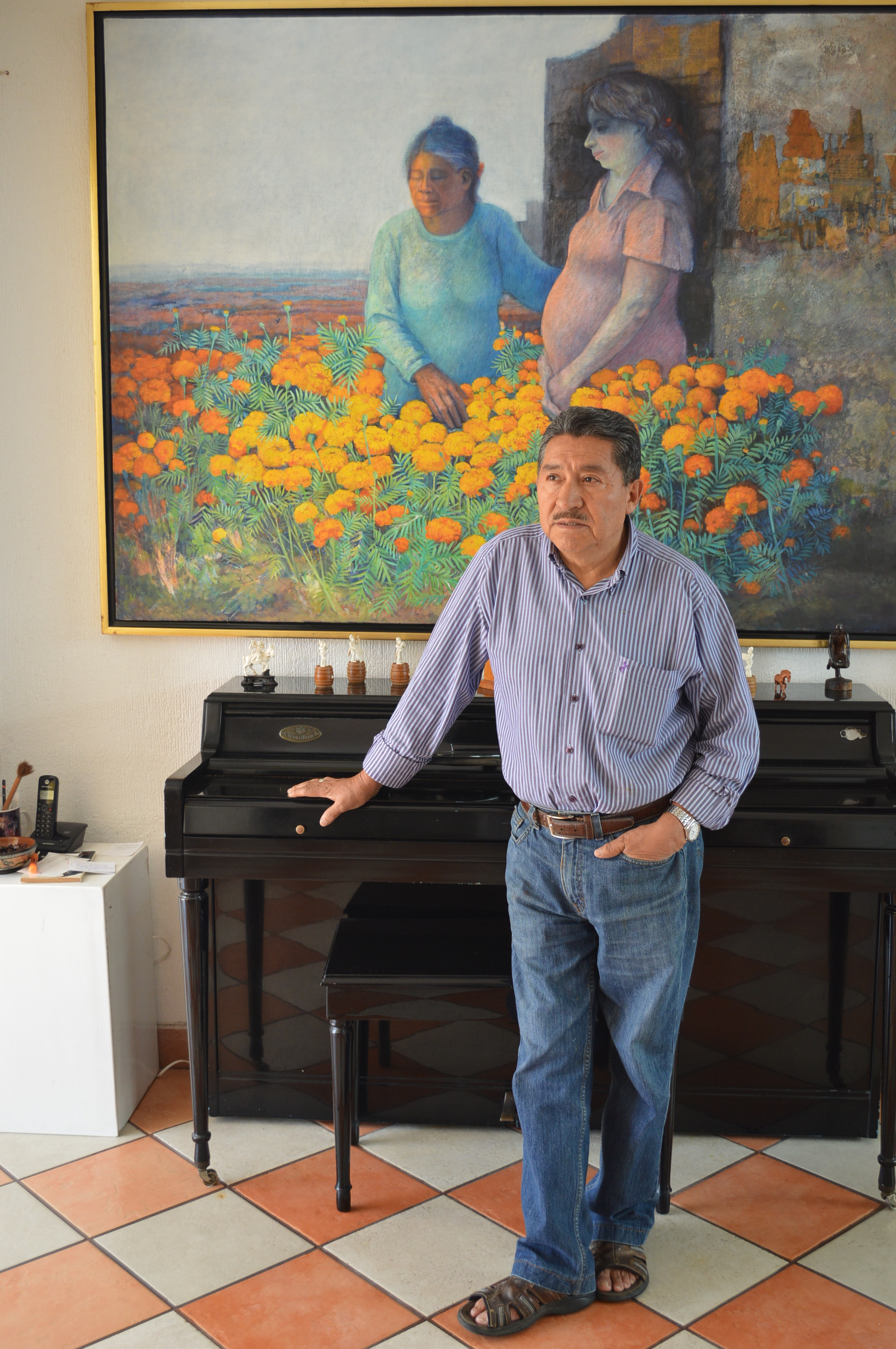 Artist Hermenegildo Sosa in front of one of his works at his studio in Mexico City